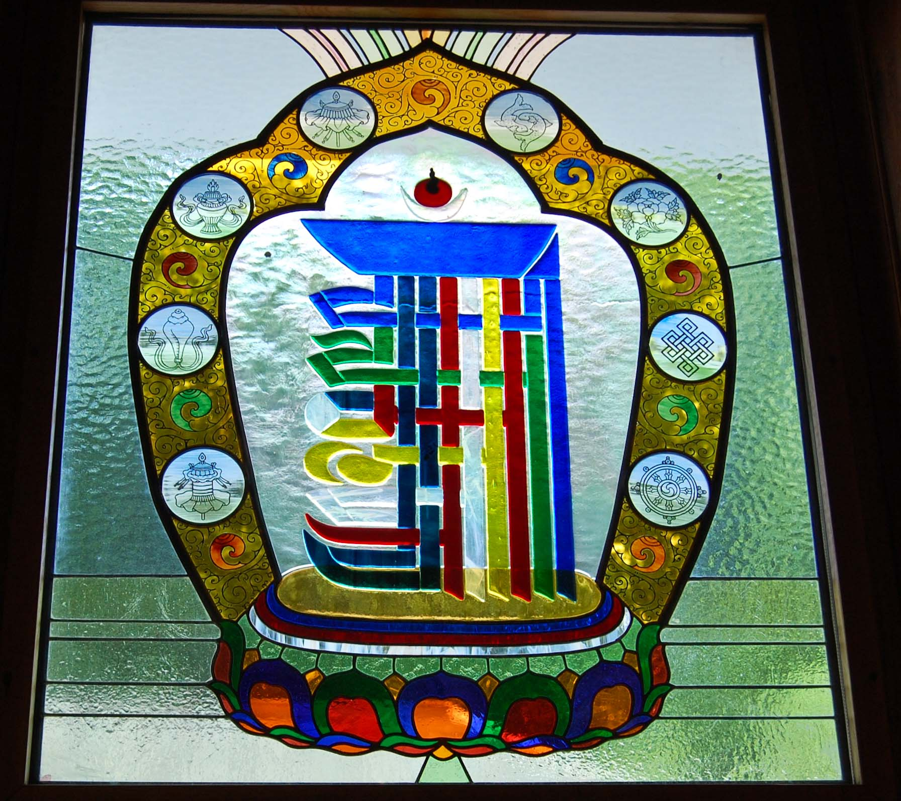 Kalachakra Mandala in a stained glass window, Samye Ling Tibetan Buddhist centre, Scotland.